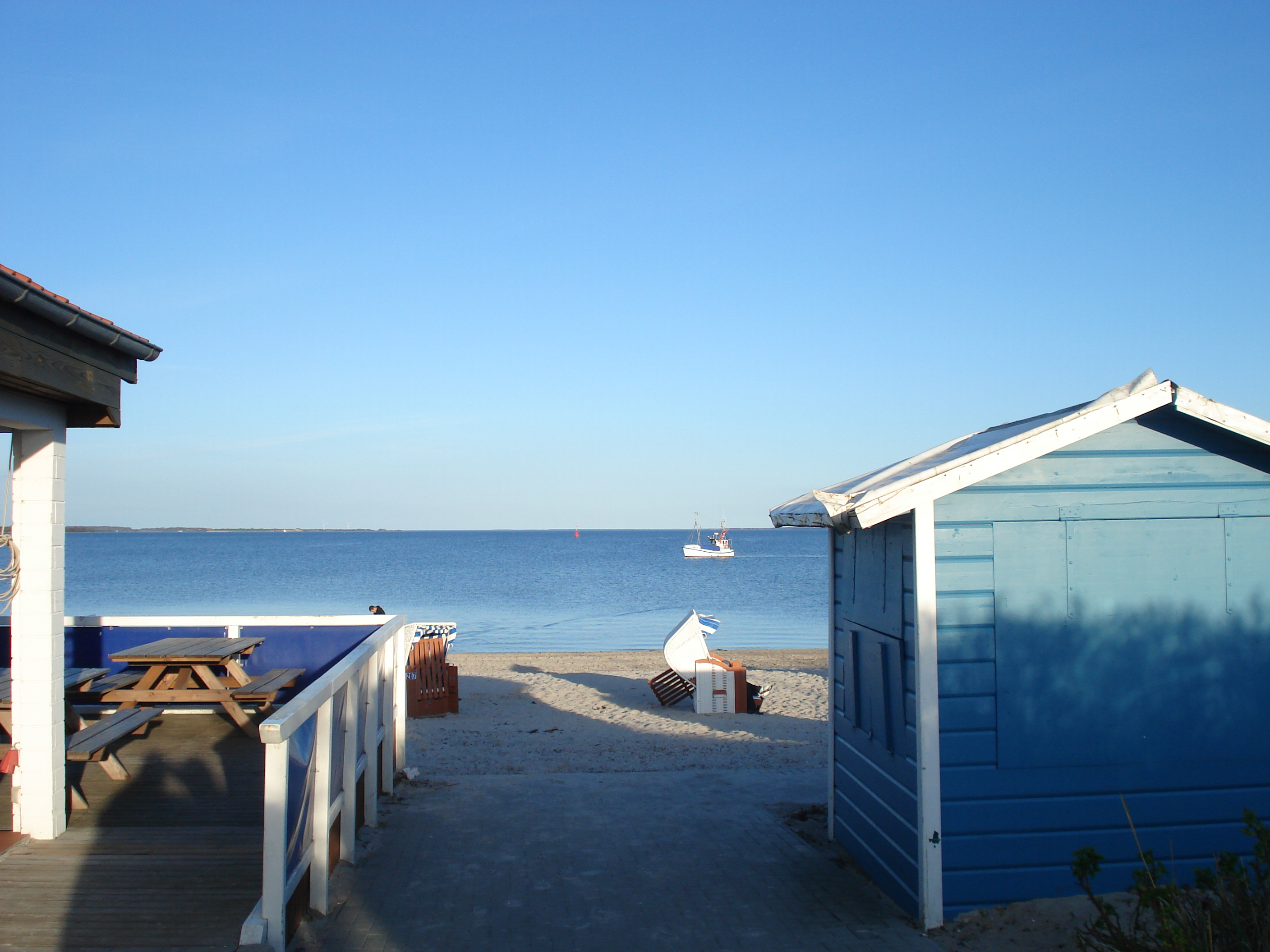 Holnis Beach, Baltic Sea, Germany